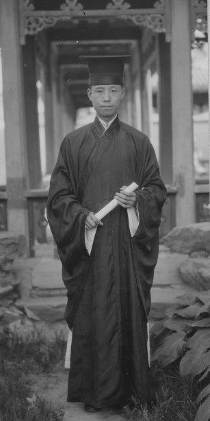 Graduate of Yenching University, 1930